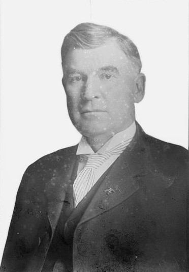 James H. Brady (1862-1918), a U.S. politician from the Republican Party, Governor of Idaho